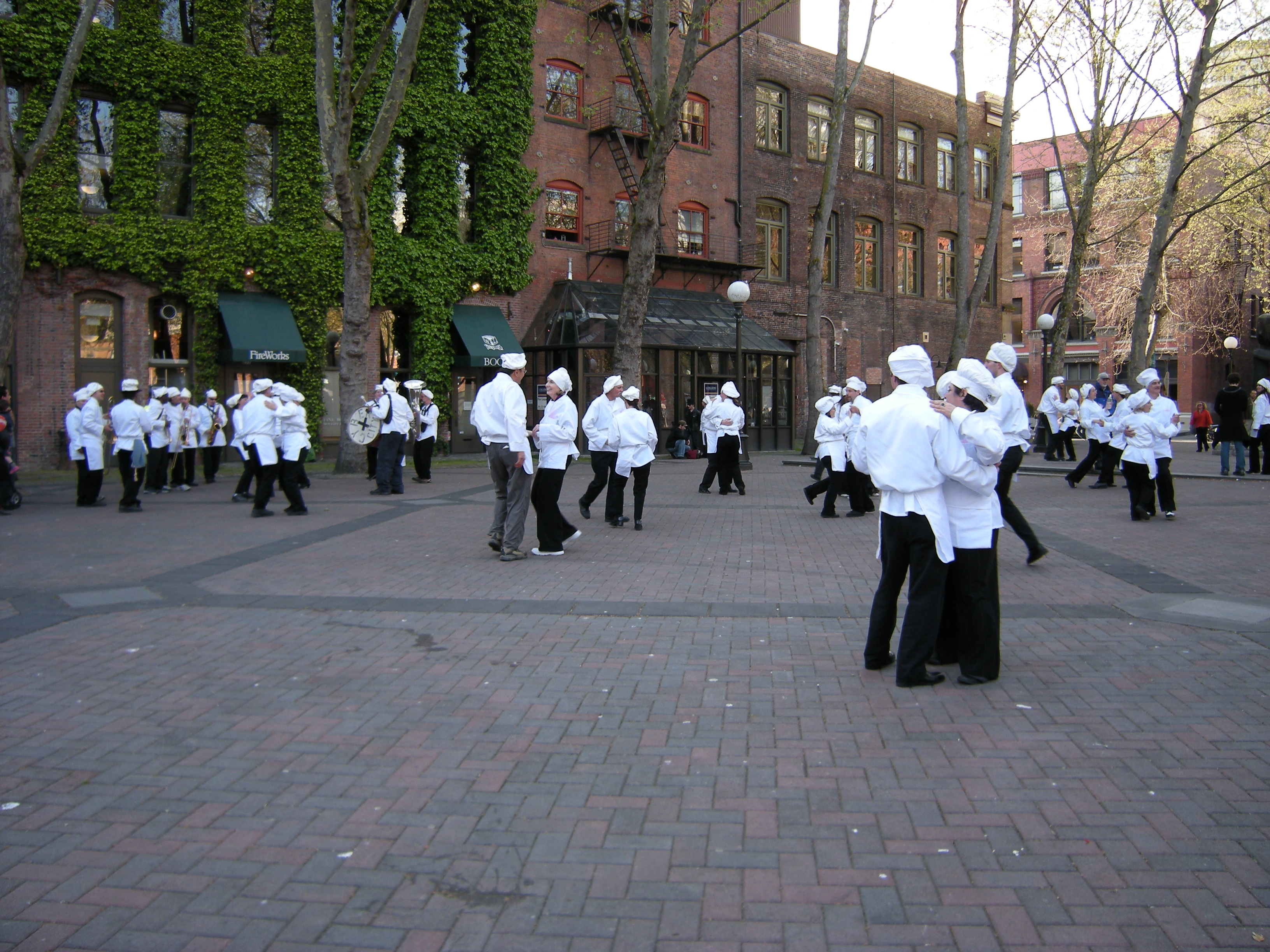 An Art Happening in Occidental Park, Pioneer Square neighborhood, Seattle, Washington, U.S.